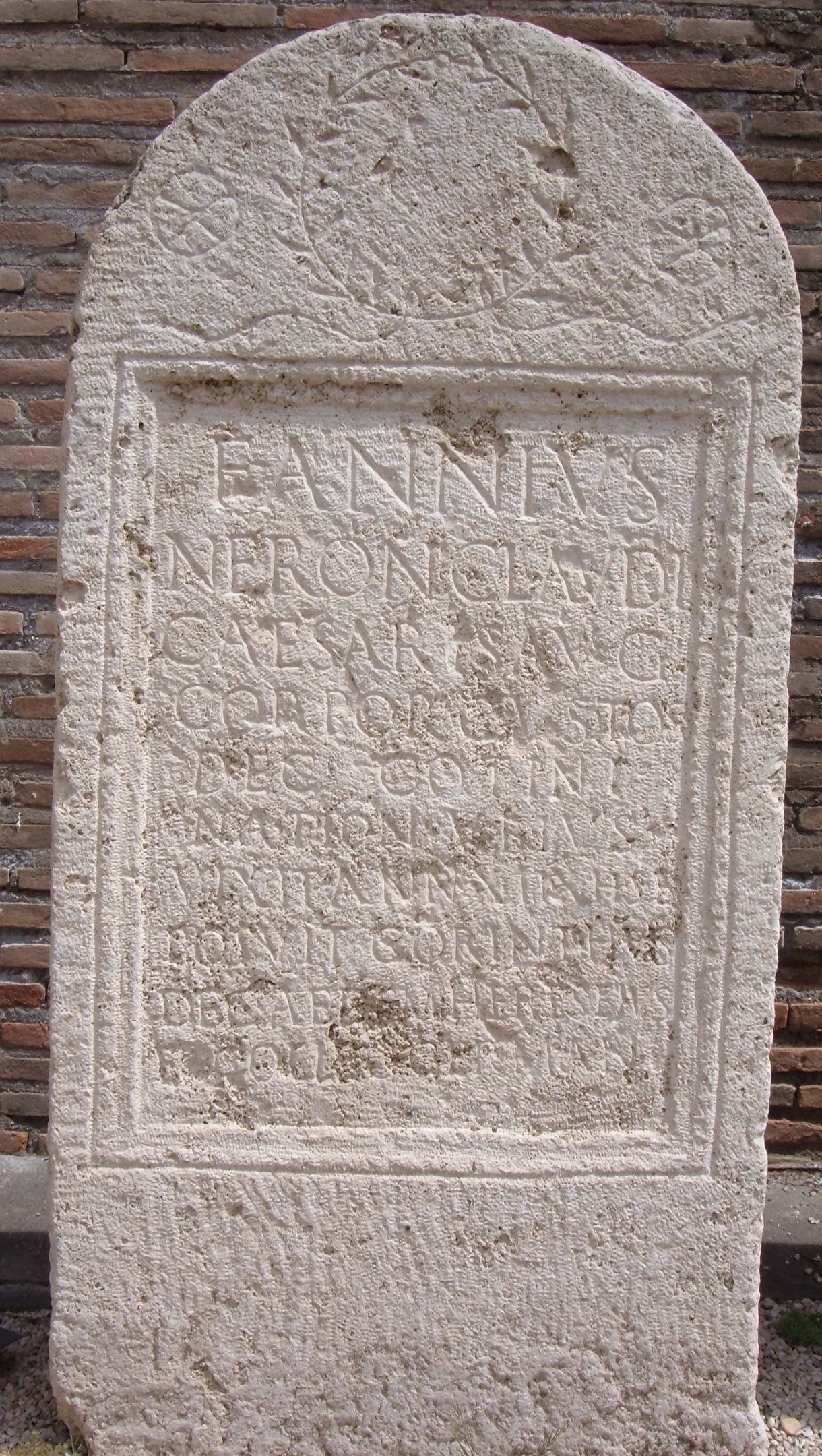 Sepulchral inscription for Fannius, member of the tribe of the Ubii, bodyguard (corporis custos) of Nero.